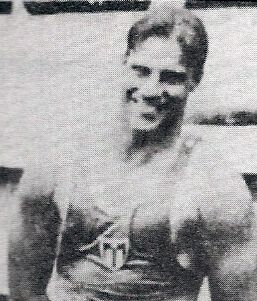 Picture of Leonel "Bebito" Smith, Cuban multiple gold medalist swimmer at the 1926 Central American Games in Mexico City, Mexico and at the 1930 Central American Games (now called the Central American and Caribbean Games)taken in 1926